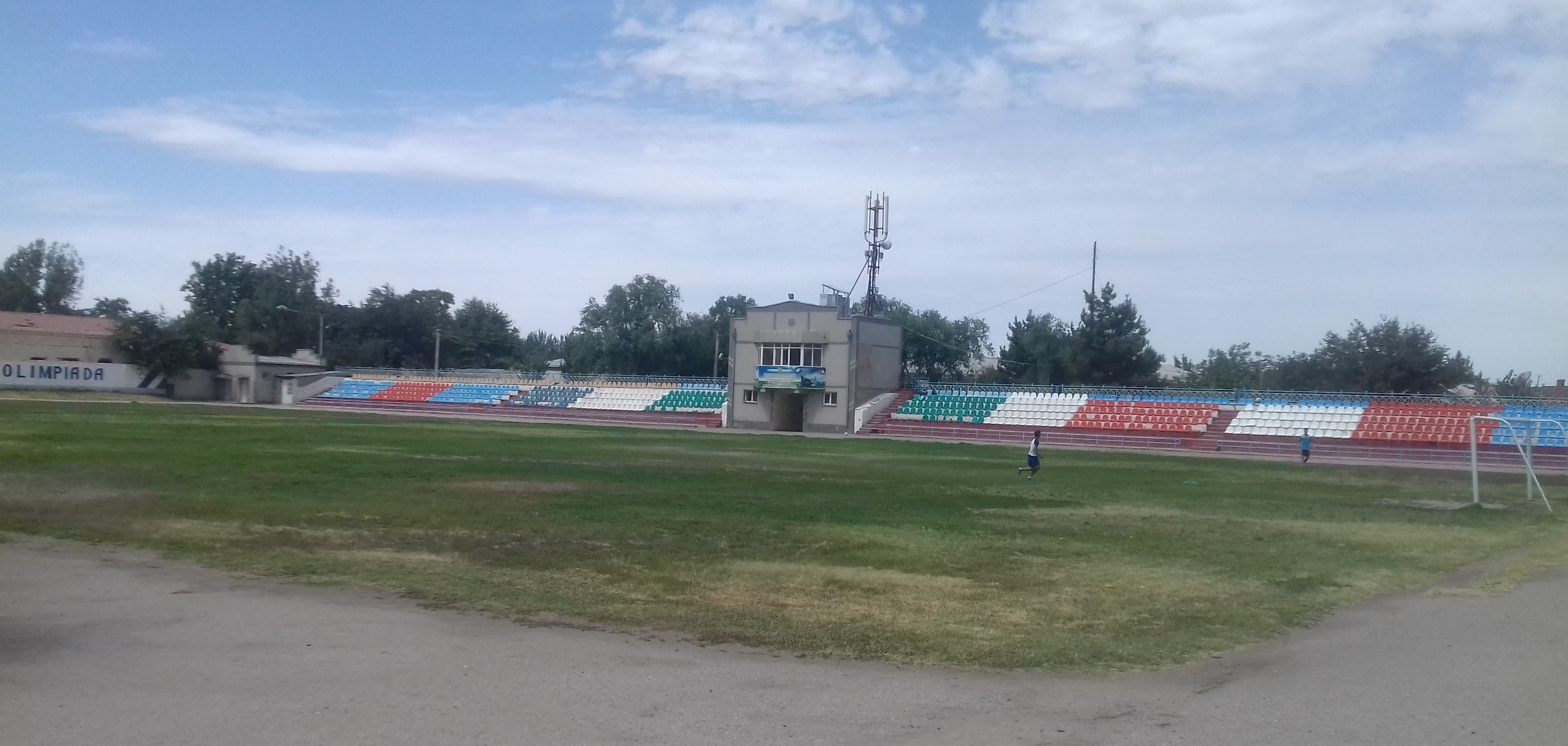 Yoshlik (former Spartak) Stadium in Samarkand (Uzbekistan)